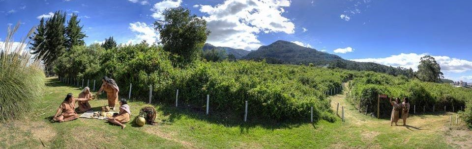 View of Rumipamba in Quito